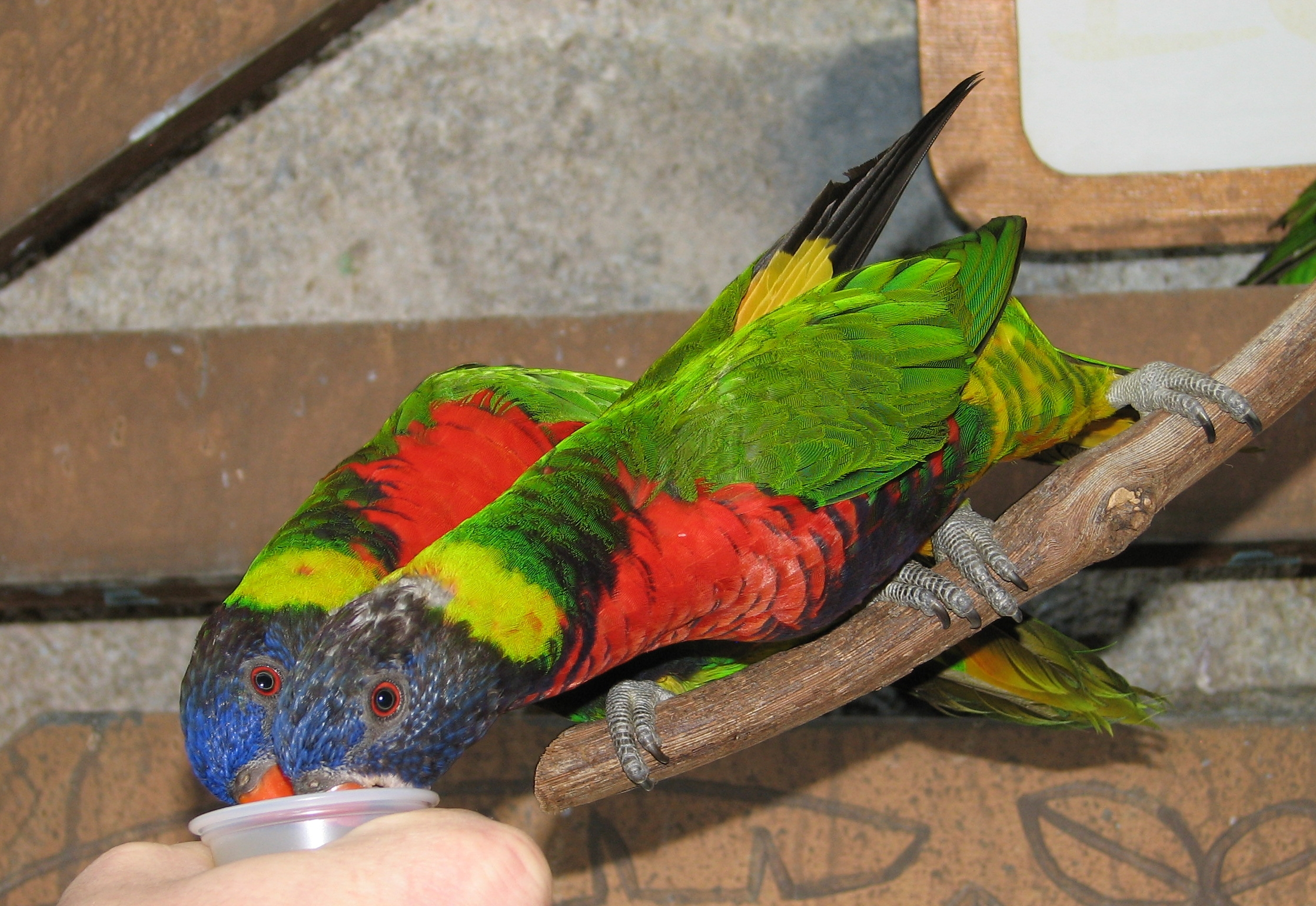 These are Rainbow Lorikeets (Trichoglossus haematodus). Labeled by Newport Aquarium as (Trichoglossus haematodus forsteni but that ID is in question)